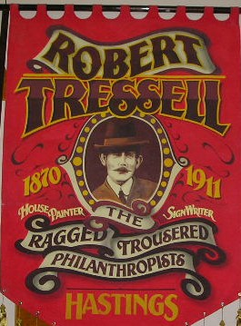 Photograph of the Robert Tressell Banner, made for the Robert Tressell Society in Hastings Taken in June 2005